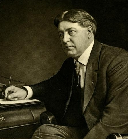 George Randall Parrish from History of Henry County, Illinois by Kiner, Henry L. Chicago: The Pioneer Pub. Co., 1910